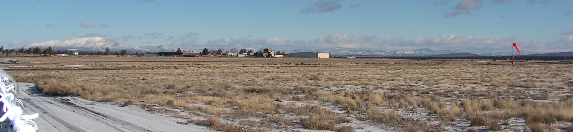 Northern area of Redmond OR airport, US Forest Service and private firefighting ramps